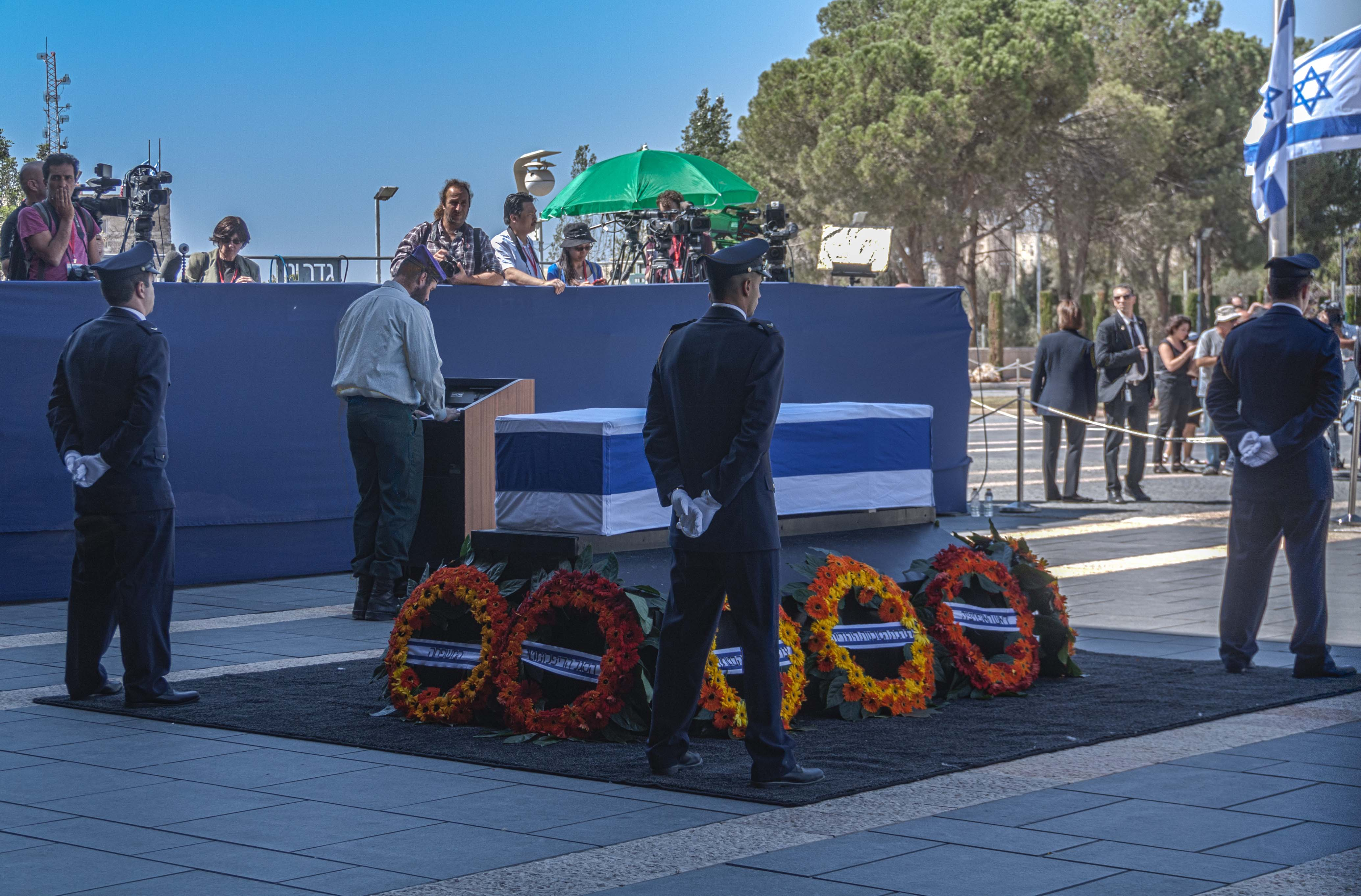 Coffin of Shimon Peres at the Knesset's yard